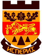 Coat of arms of Isperikh, Bulgaria